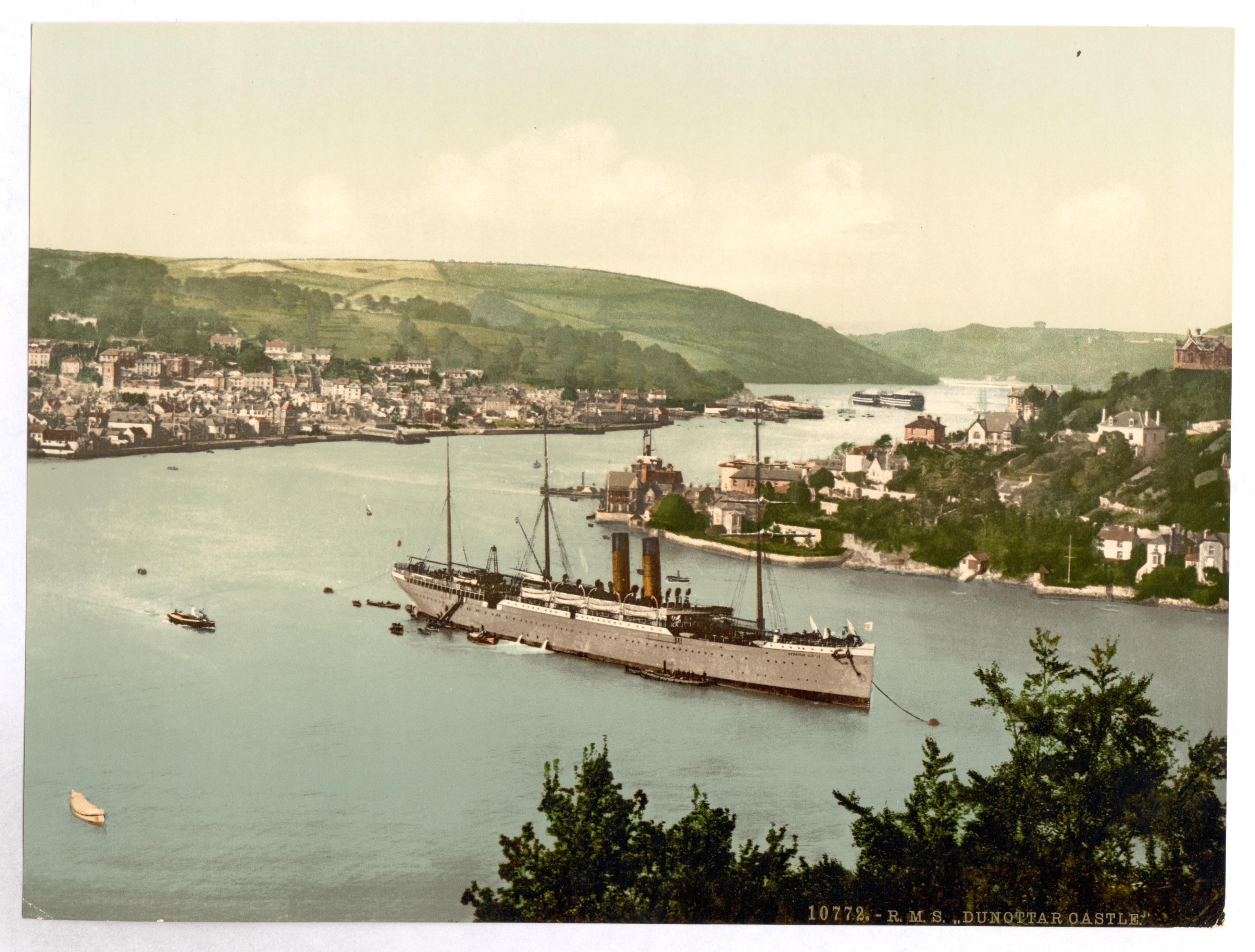 RMS Dunottar Castle. Print no. "10772"